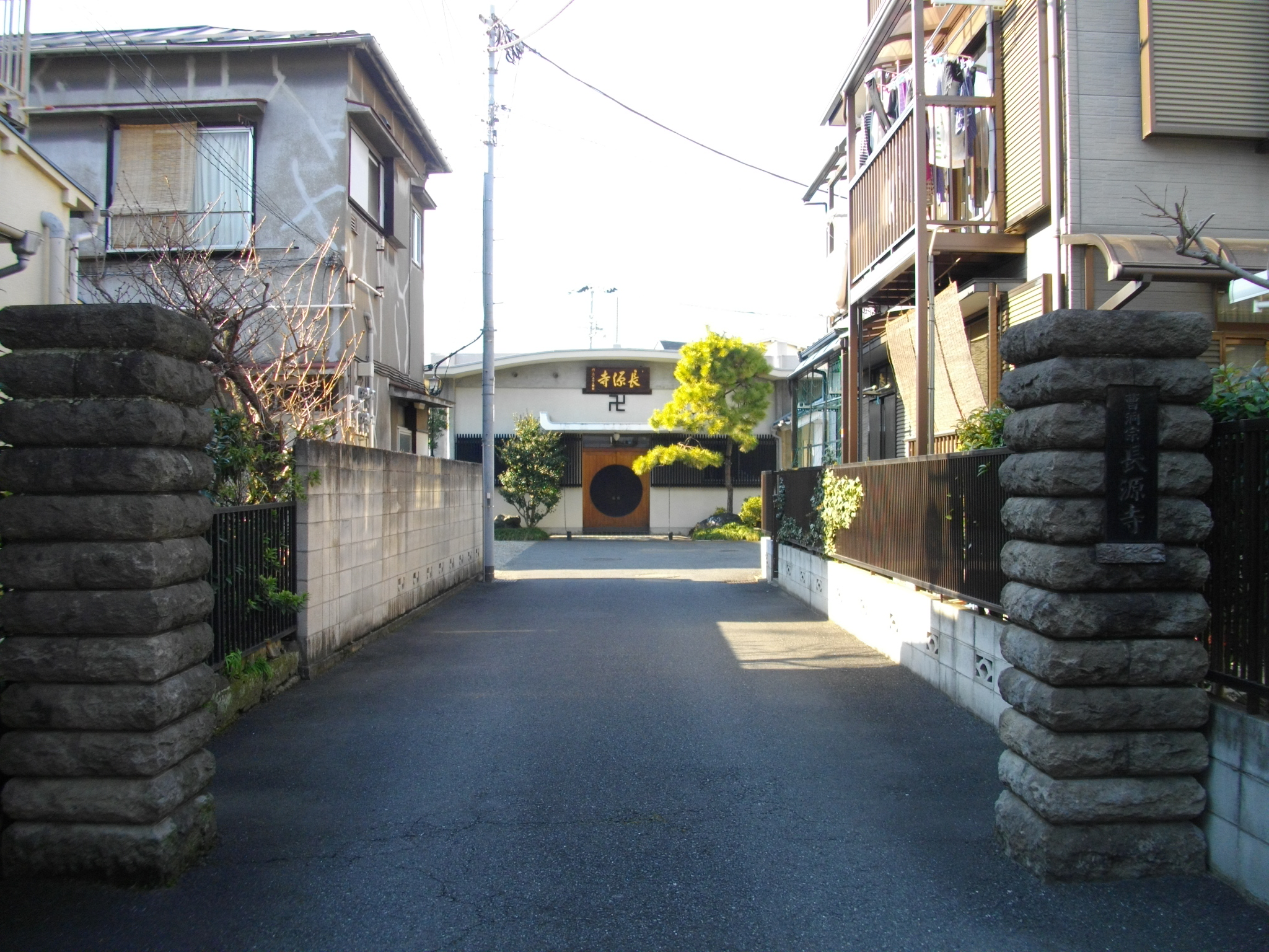 Chogen-ji (Shinjuku)